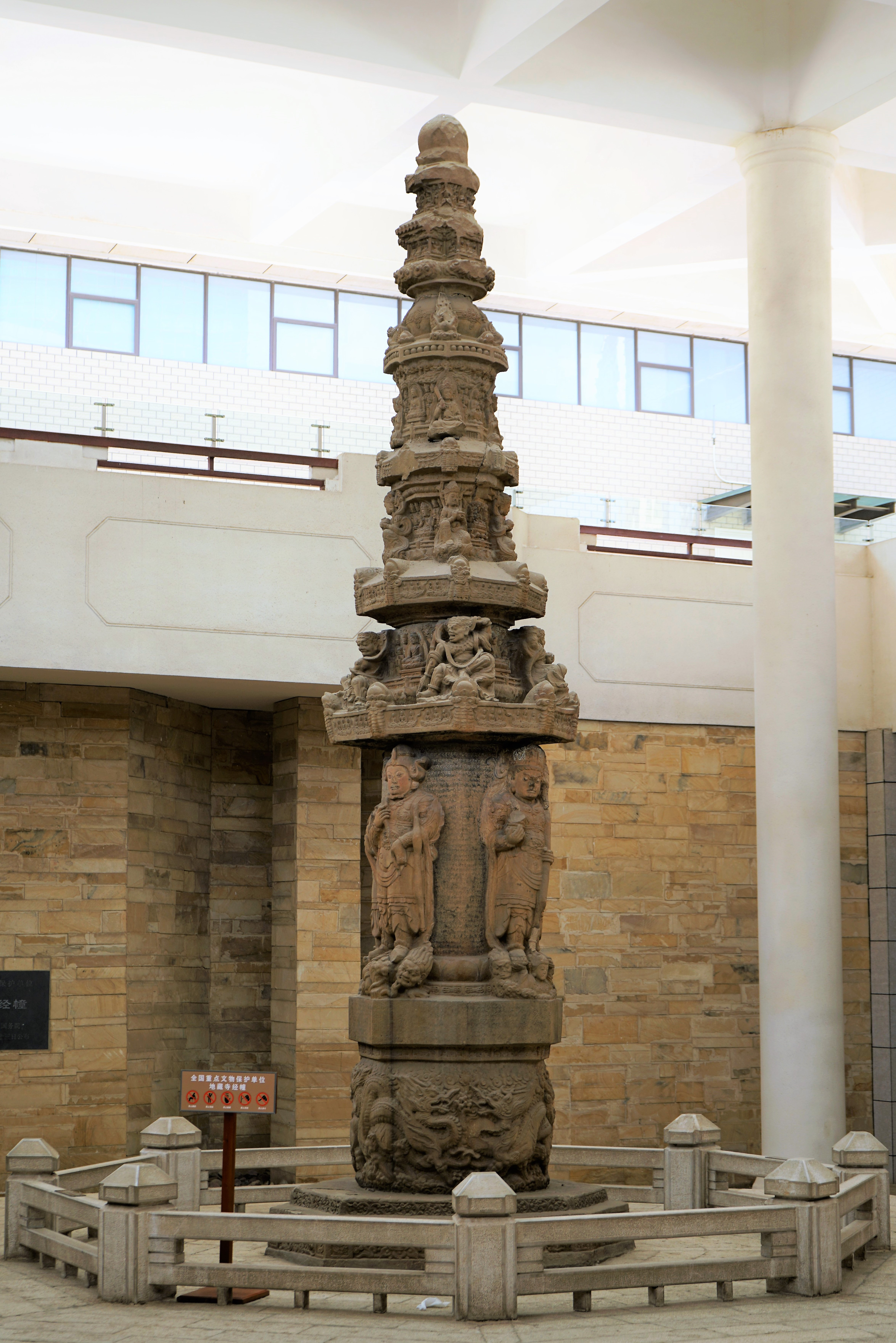 Sutra Stone Pillar in the Dizang Temple